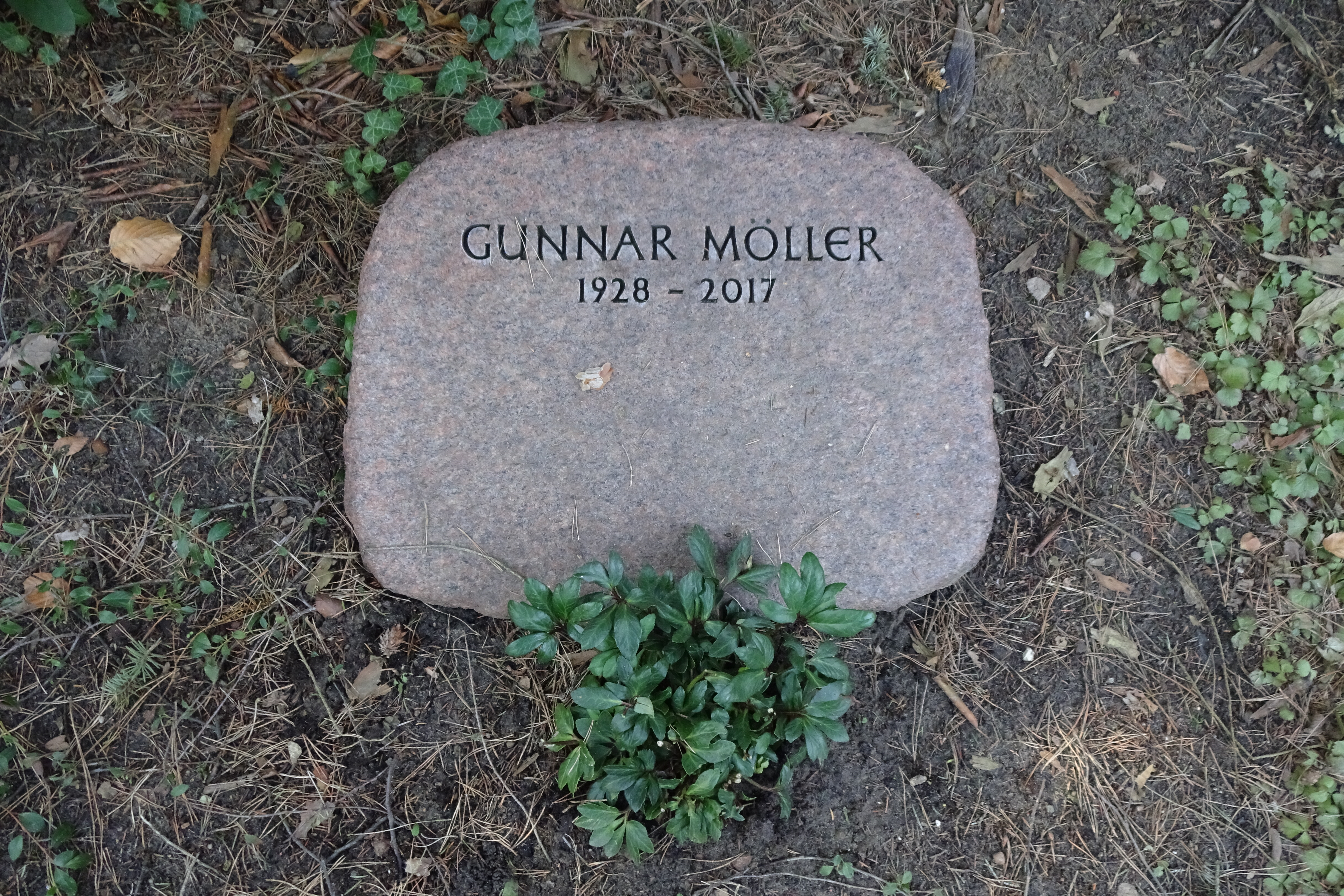 Grave of German actor Gunnar Möller in Parkfriedhof Lichterfelde in Berlin, Germany.